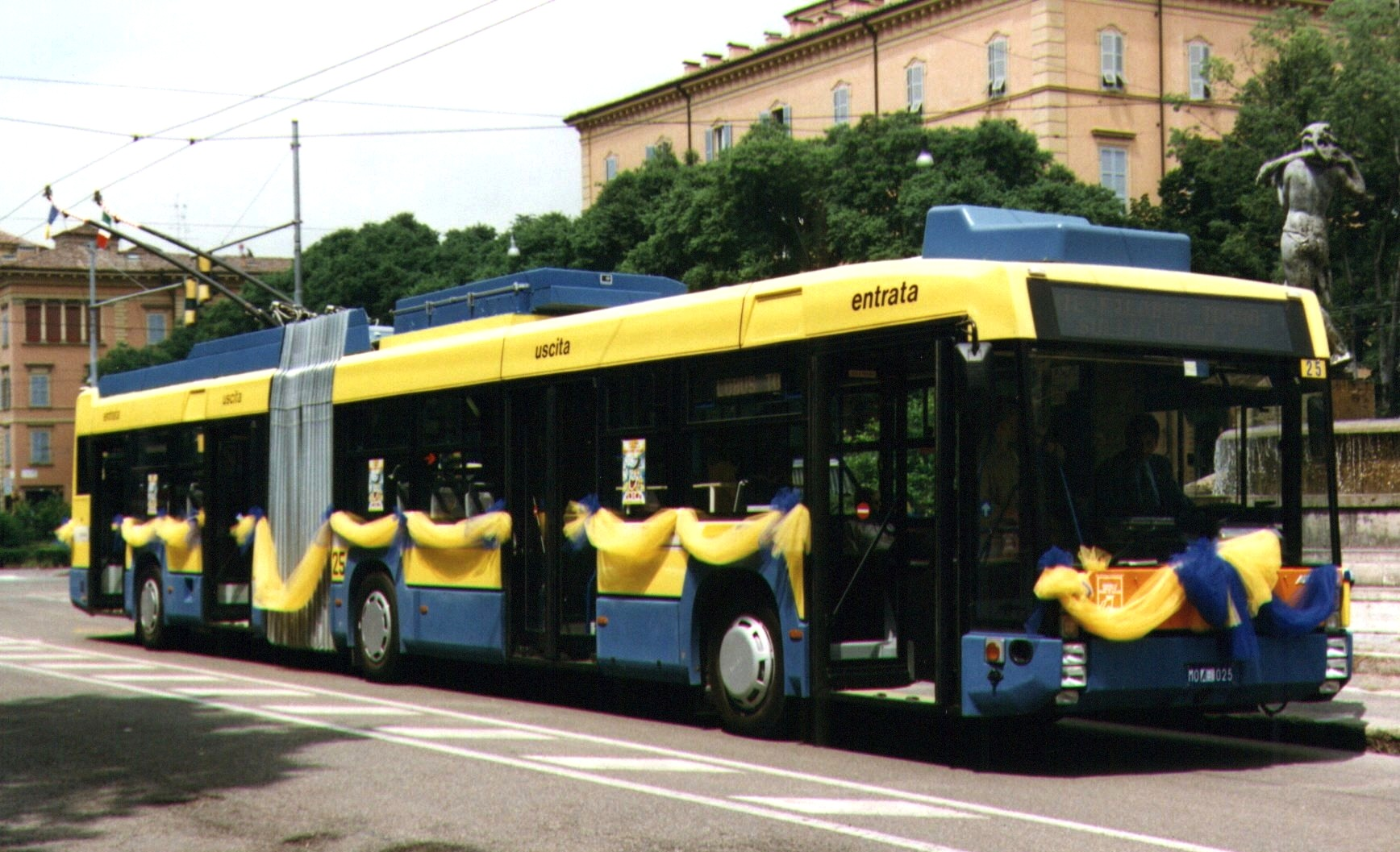 Trolleybus 25 of the Modena trolleybus system at Largo Garibaldi, decorated with bunting for an event on 13 May 2000, celebrating the reopening of the system after a four-year closure for rebuilding. The 1999-built Autodromo trolleybus (Busotto model) 25 was the first of 10 such vehicles added to the fleet, and this event also introduced those new trolleybuses to the public. One other trolleybus participated in the activities, No. 27, but they did not operate in service on this day. Trolleybus service resumed two days later, on 15 May 2000, and the new Autodromo trolleybuses – the system's first low-floor trolleybuses – began carrying regular passengers on that day, on line 7, the only trolleybus line running at that time. In this photo, No. 25 is travelling east along the south side of Largo Garibaldi (using overhead wires that are only used when a trolleybus turns around at this location). Its LED destination-sign reads "Il filobus torna sulla linea 7" (the trolleybus returns to line 7).